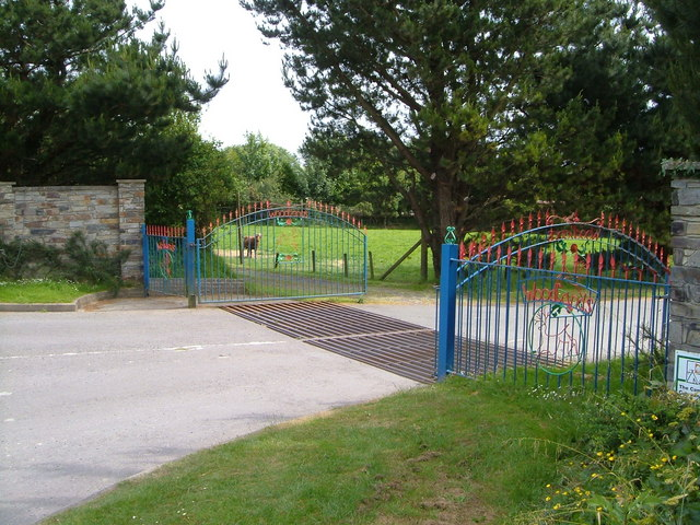 Woodlands Leisure Park. Colourful entrance gates on the A3122, and a welcoming goat.